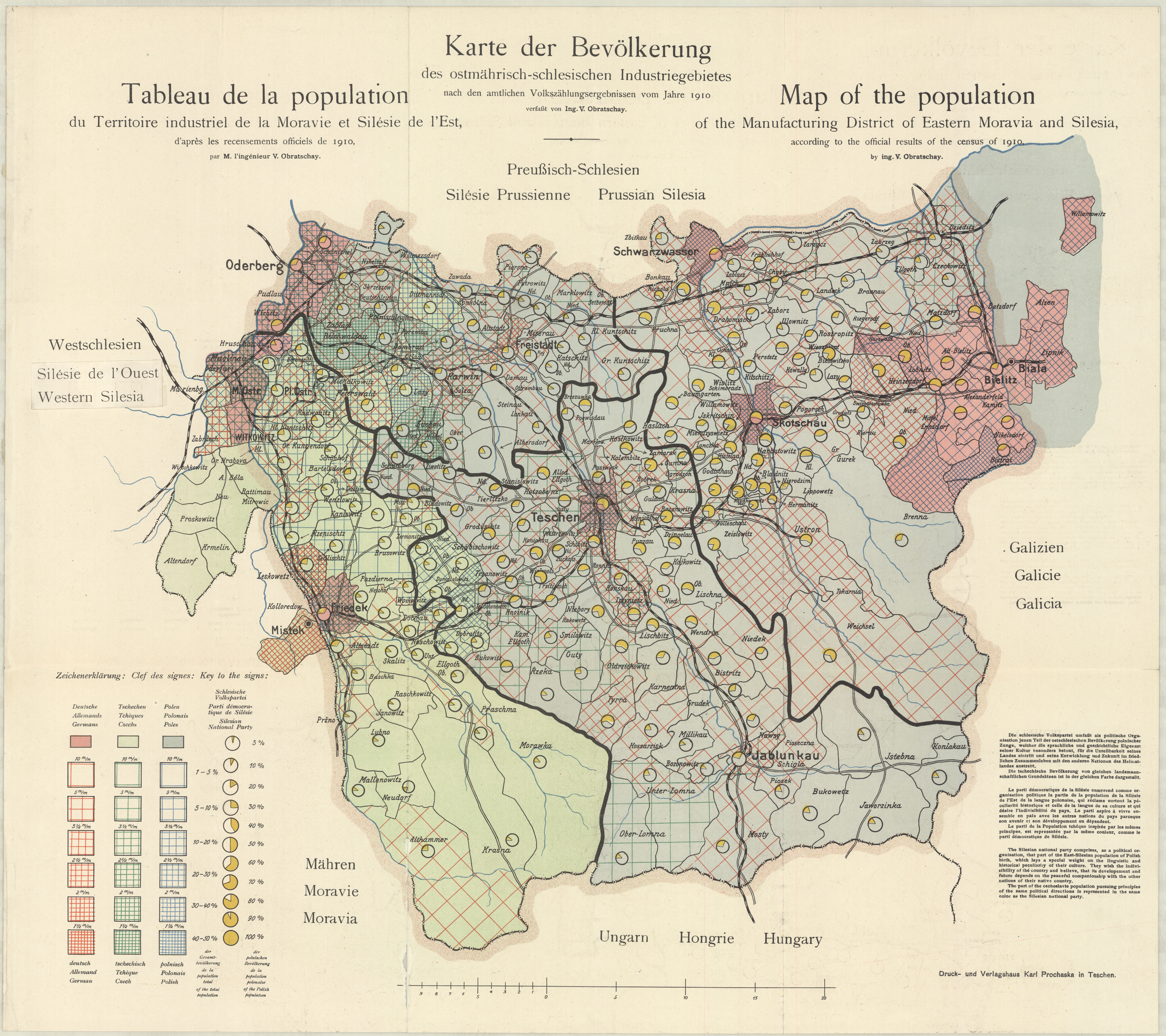 Map of the population of the Manufacturin District of Eastern Moravia and Silesia, according to the official results of the census of 1910